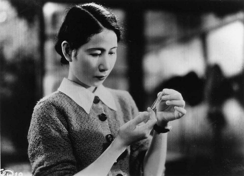 Shizue Natsukawa in Kojima no haru (1940)